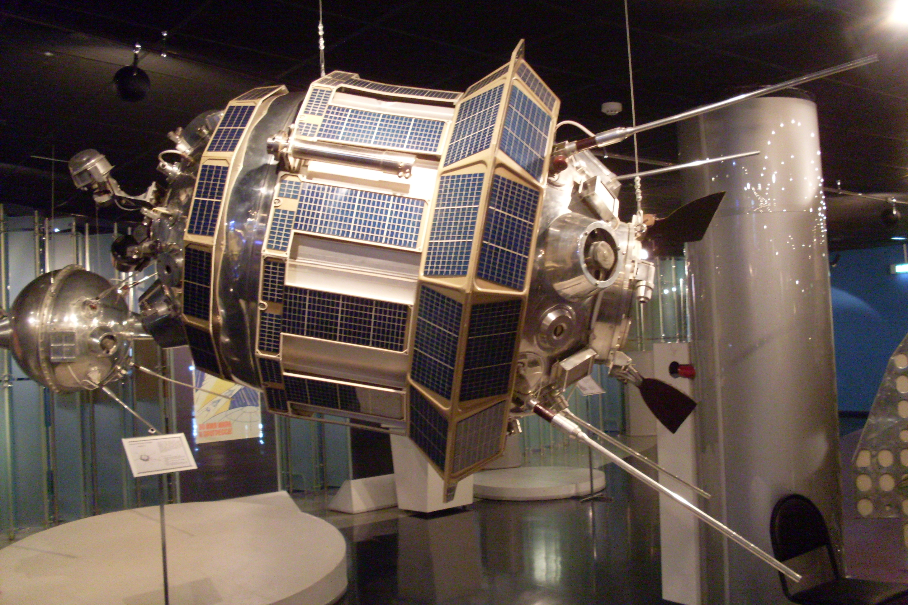 Mockup (1:1) of the spacecraft Luna 3 at Memorial Museum of Astronautics (Moscow).